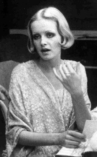 Ken Russell and Twiggy on set of The Boy Friend, 1971.